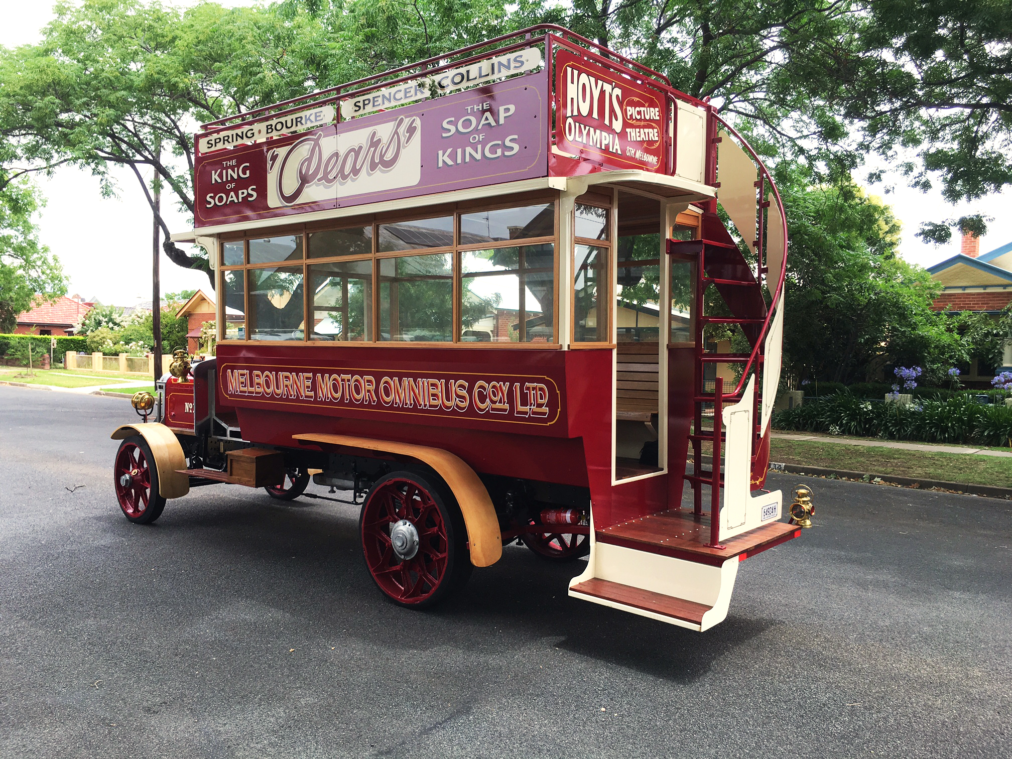 Daimler CC Bus 1912. Restoration by Nixons Engineering in Australia. This is one of five buses imported by the Melbourne Motor Omnibus Co Ltd and was in service until 1920. It is one of the few remaining Daimler CC buses in the world.